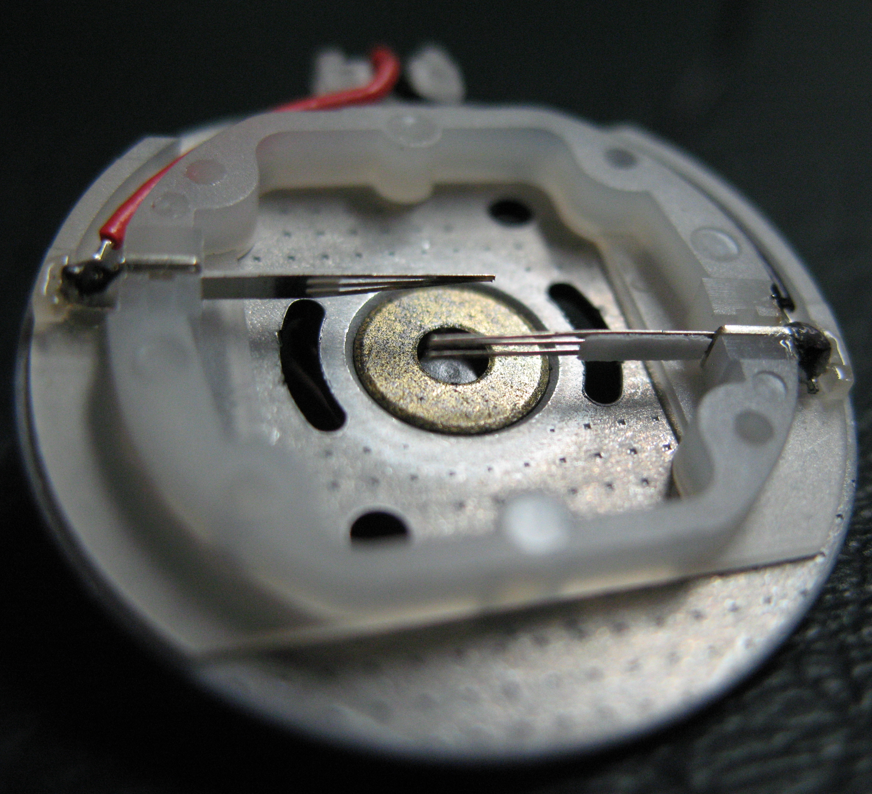 Closeup view of the brushes in this tiny commutated DC motor